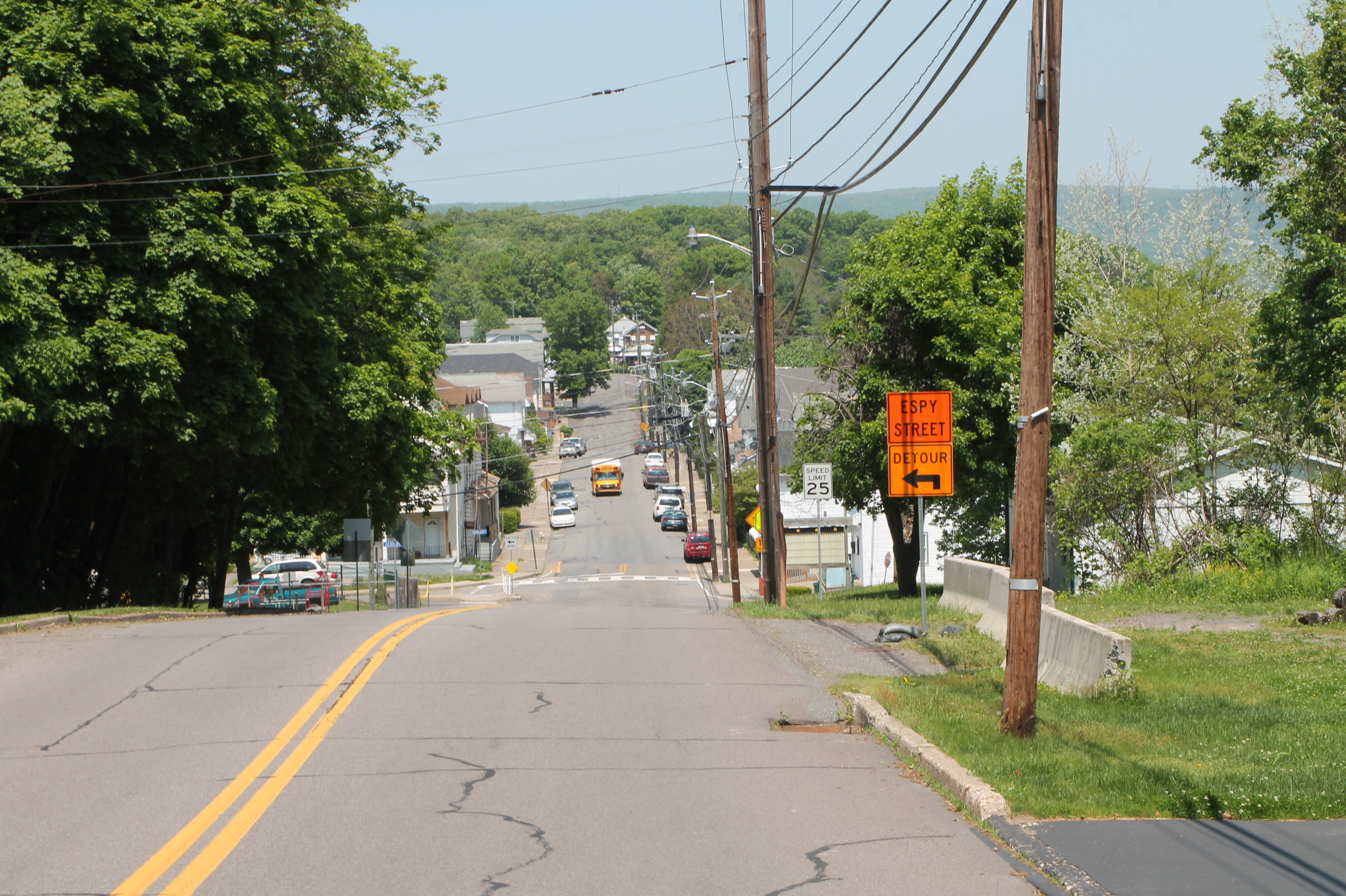 Looking northwards on a road going out of Warrior Run, Pennsylvania, in Luzerne County.